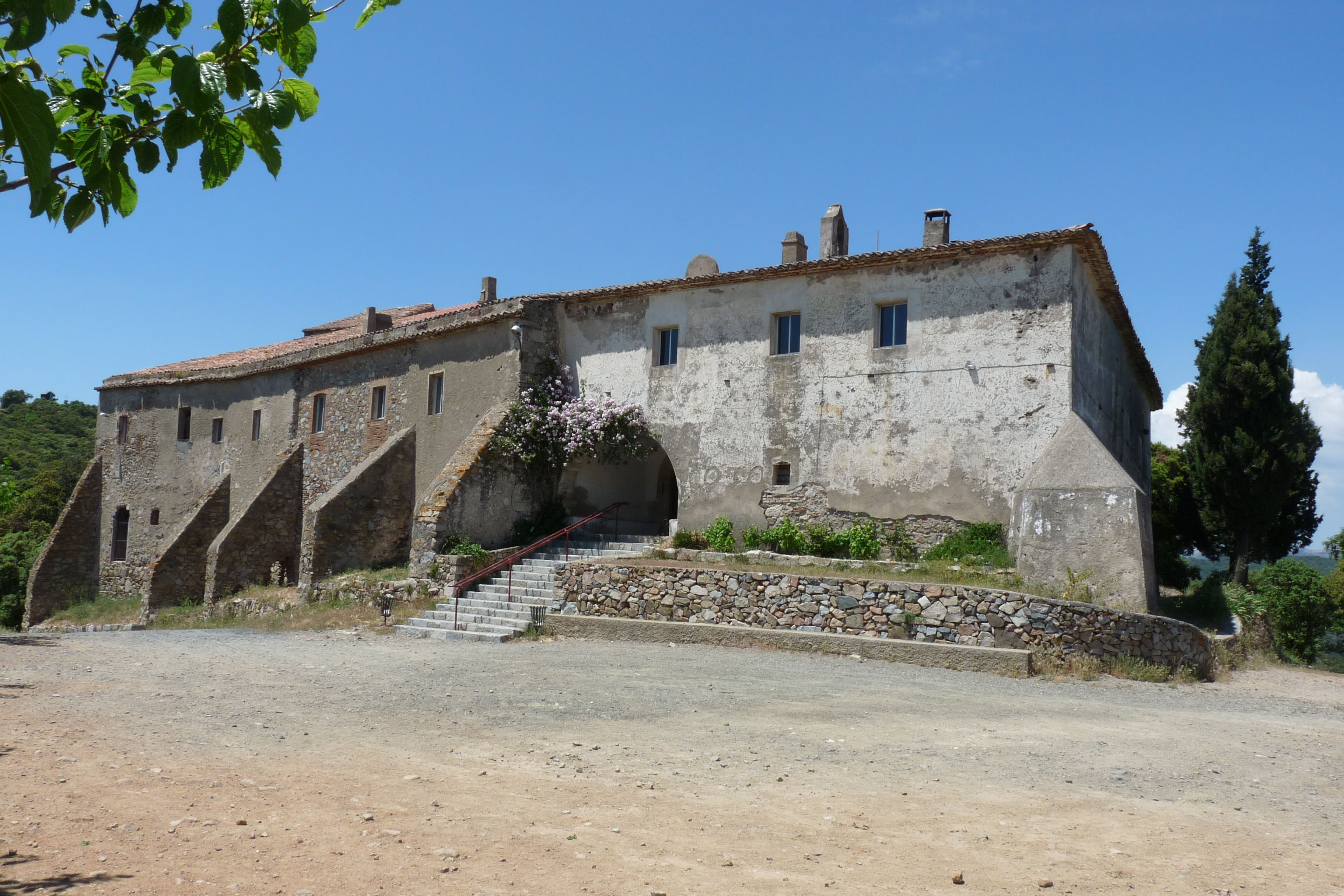 Hermitage of Mare de Déu de Puigcerver, Alforja.